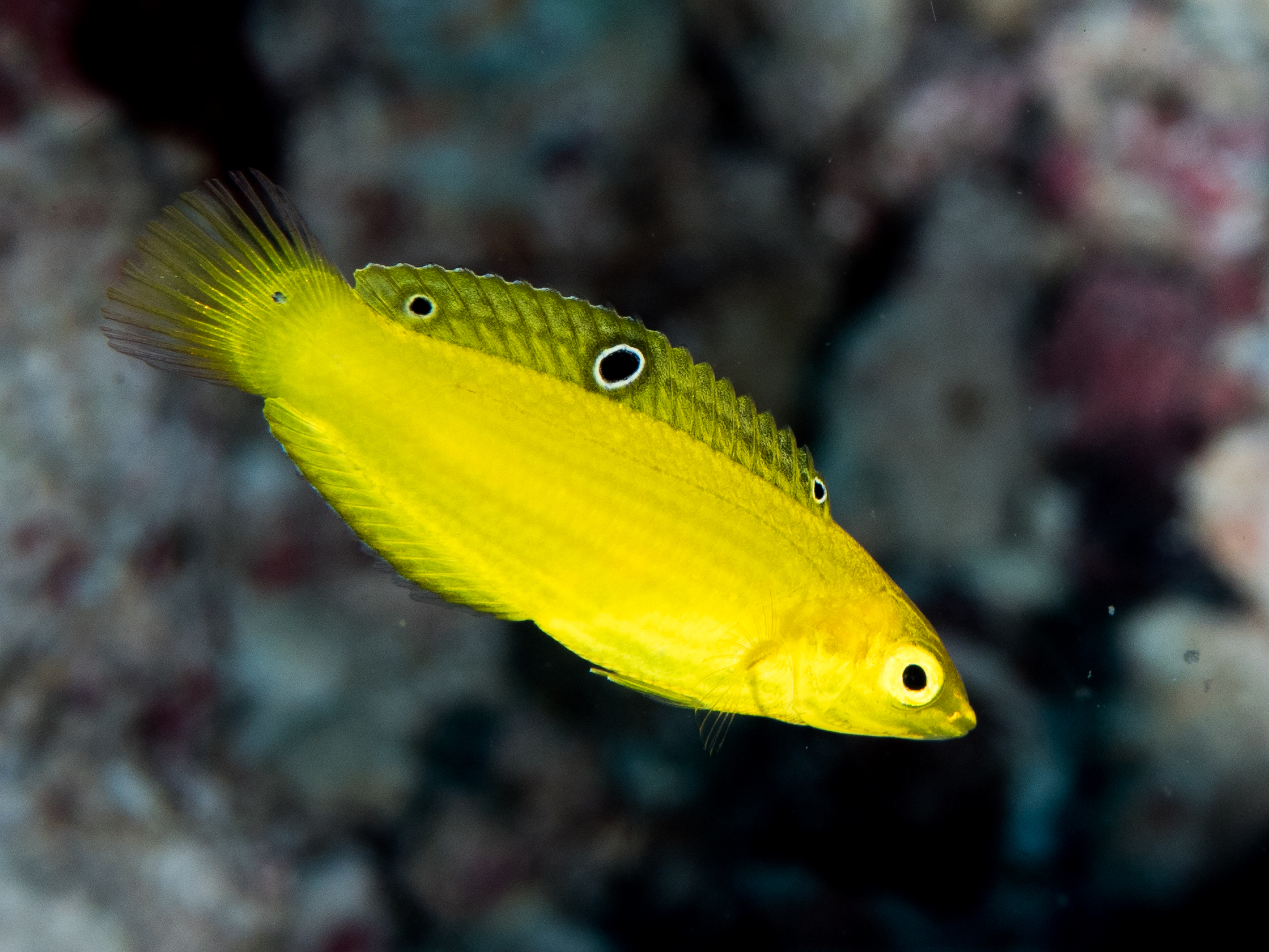 Lembeh, Indonesia - Canary wrasse (Halichoeres chrysus)